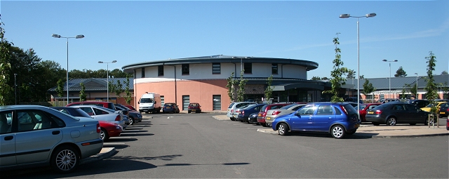 Whitehills Hospital. This modern complex has replaced Forfar's old Infirmary.